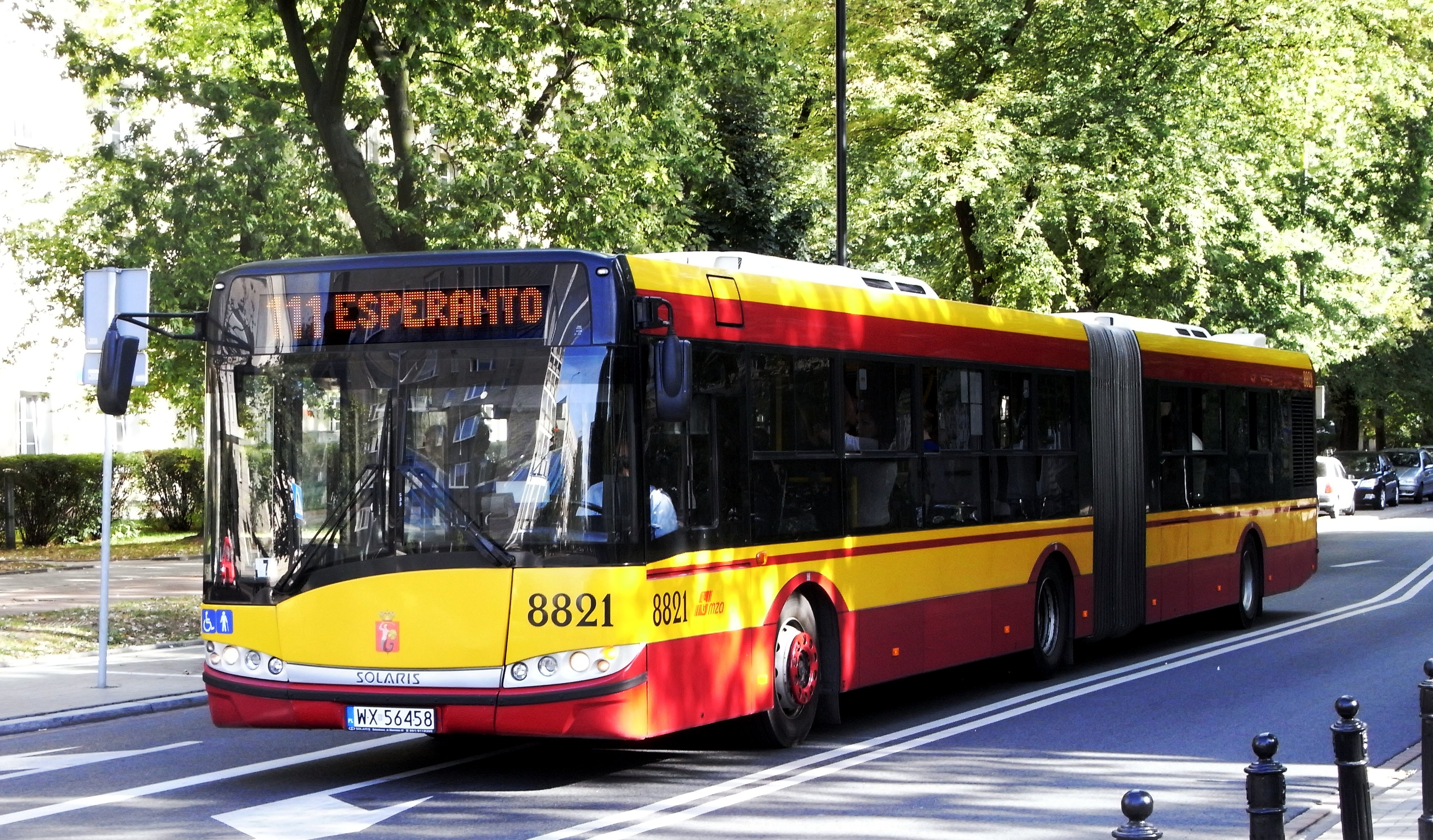 Solaris Urbino 18 bus (#8821, reg. WX 56458) in Warsaw, Poland. Built 2008, MZA Warszawa operator.